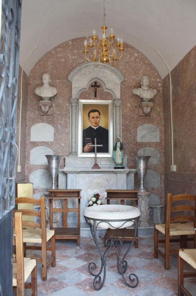 Saint David Uribe Velasco Chapel, Saint Francis of Assisi Church, Iguala de la Independencia, Guerrero, Mexico